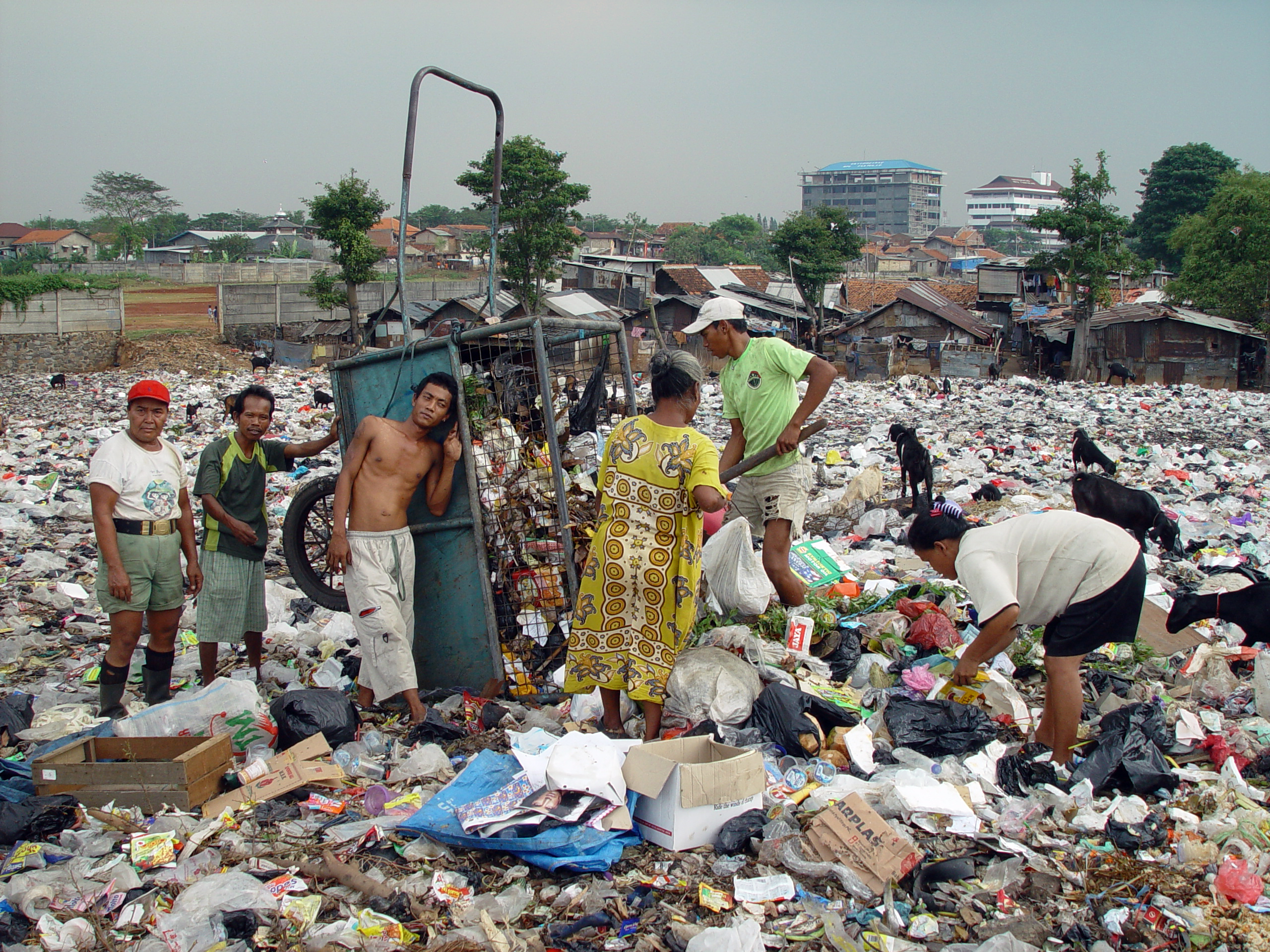 Slum life, Jakarta Indonesia.